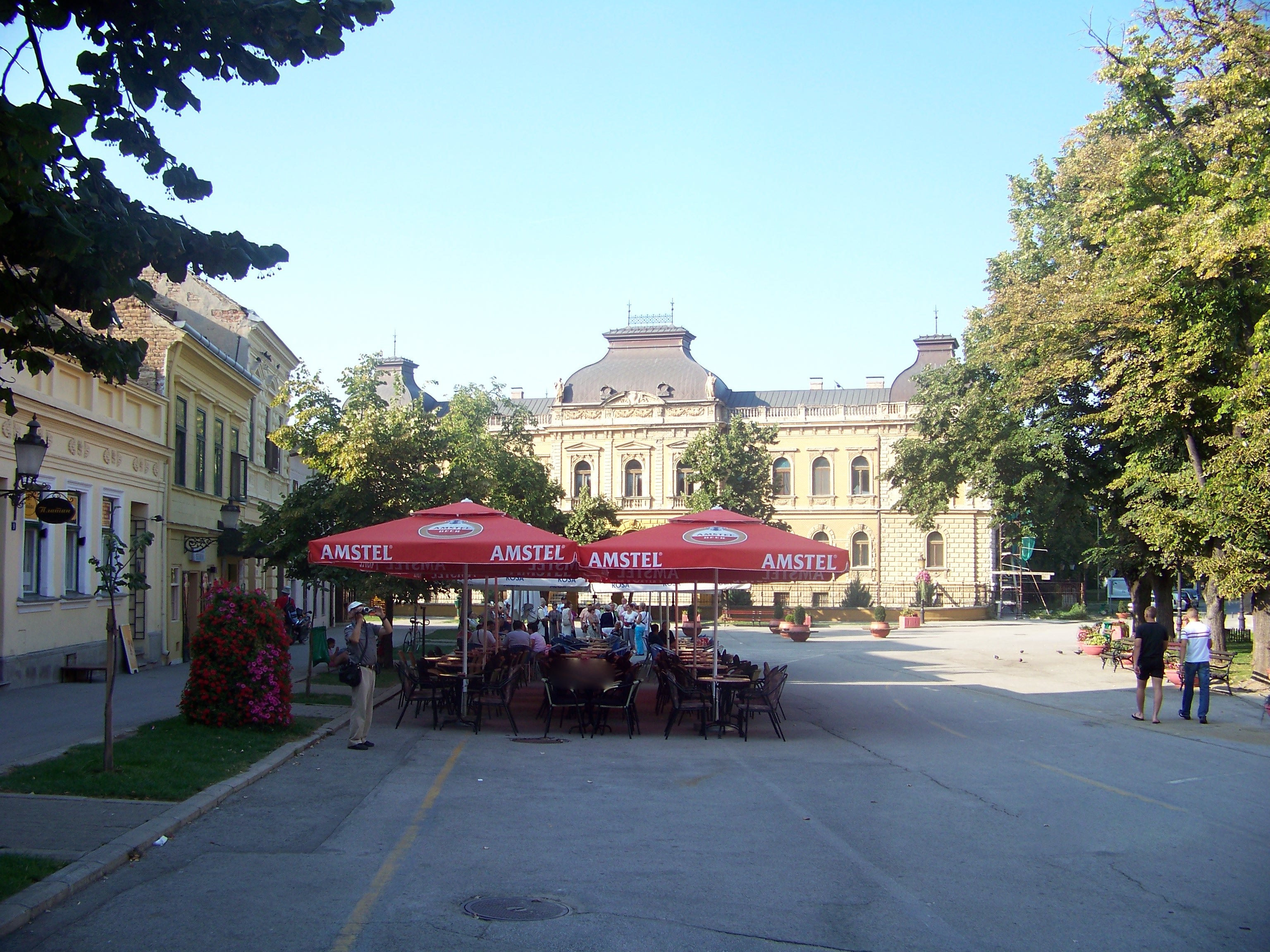 Sremski Karlovci, town square